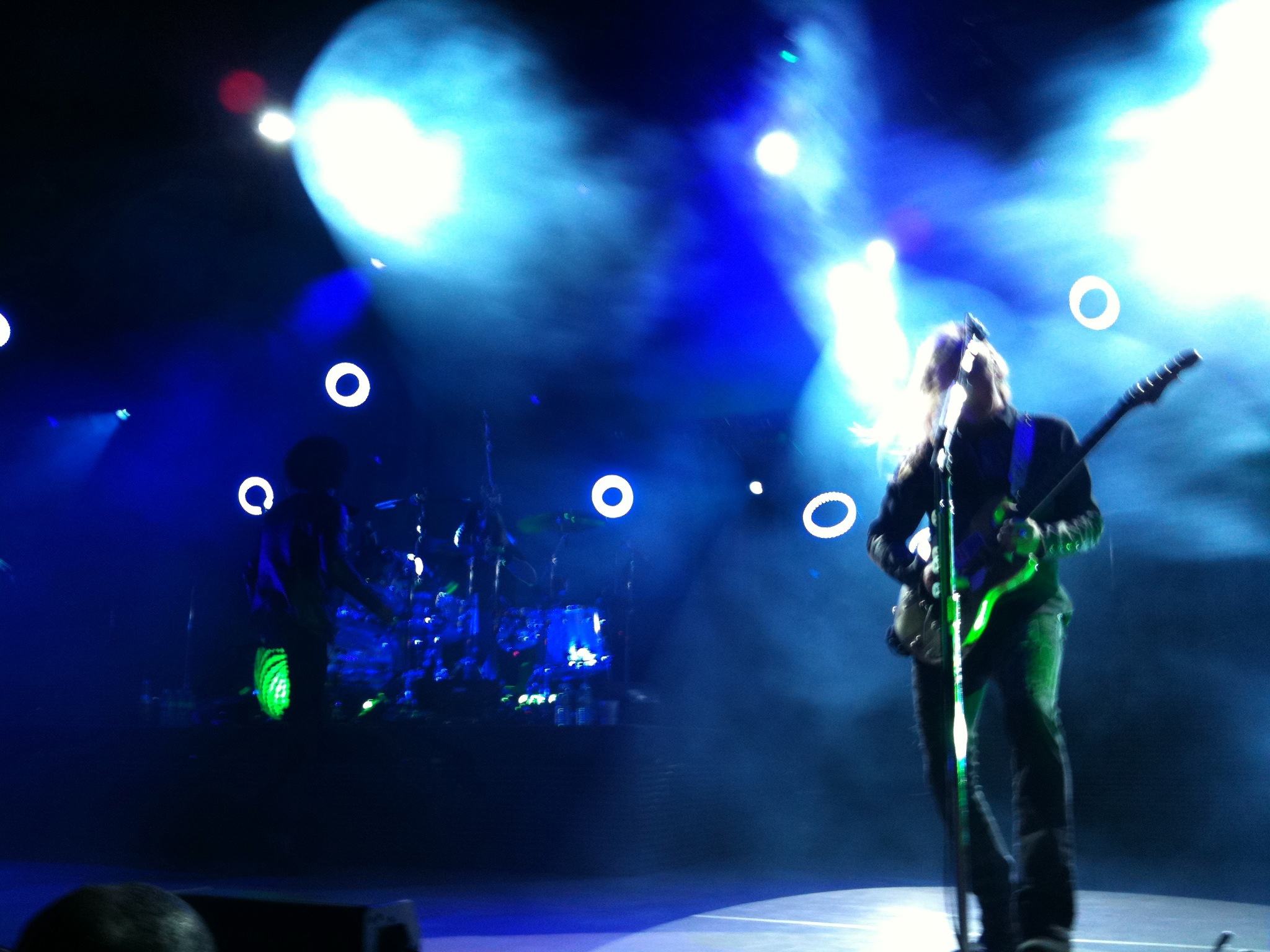 Alice in Chains live at Chicago, 2010